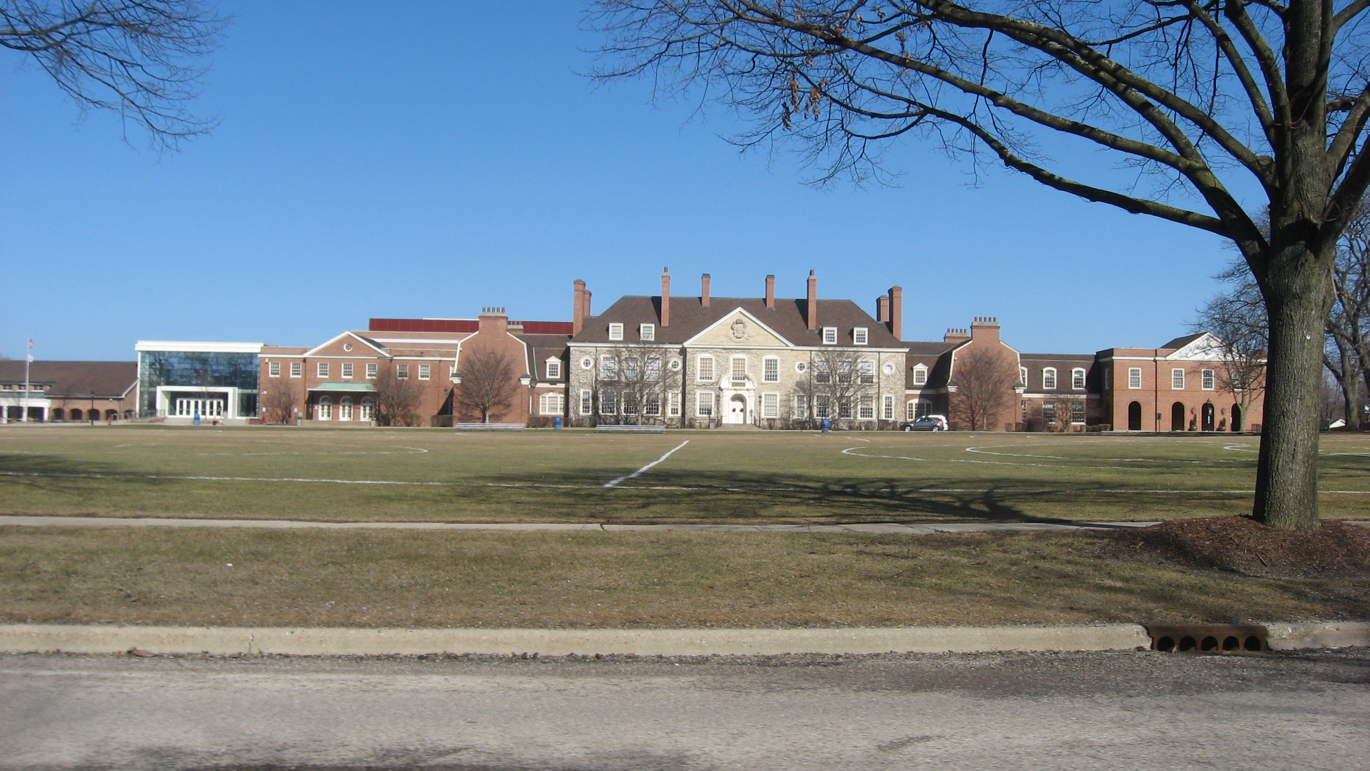 Front of Lake Forest High School, located at 1285 N. McKinley Road in Lake Forest, Illinois, United States. It was built in 1935.